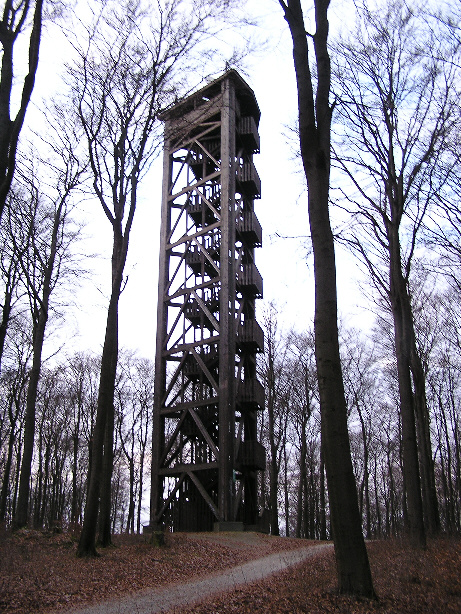 Lookout tower on the "Pferdskopf" (Taunus, Germany)